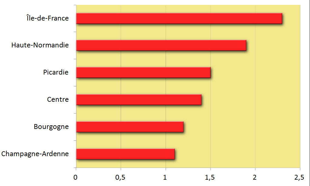 Length (km) per hectare of infrastructures of transportation fragmenting french forests (km / ha) for six Regions of France, according to french database of IGN data BDTopo 2011, IFN, INSEE, Corine Land Cover 2006. (Geographic Information pretreated pr J. Bonneau 2011 for NaturParif (see above). Be carfeful with thoste data this calculation keeps only the main roads, service roads, urban transport) and not the ways and those unexploited passing through tunnels considered here do not cause fragmentation (actually tracks activity in the tunnel and possibly pose problems for cave species that are killed in tunnels by trains or vehicles or polluted or are embarrassed by them). For roads, only roadways are taken into account, that is to say where the traffic channels drive is possible. Roads, trails, bike paths and lanes passing through tunnels are excluded, but bike paths or trails in "hard" actually have a fragmenting impact (for species of including ground). It also lacks the channels whose artificial banks or whose artificiality involved in forest fragmentation when they cross the